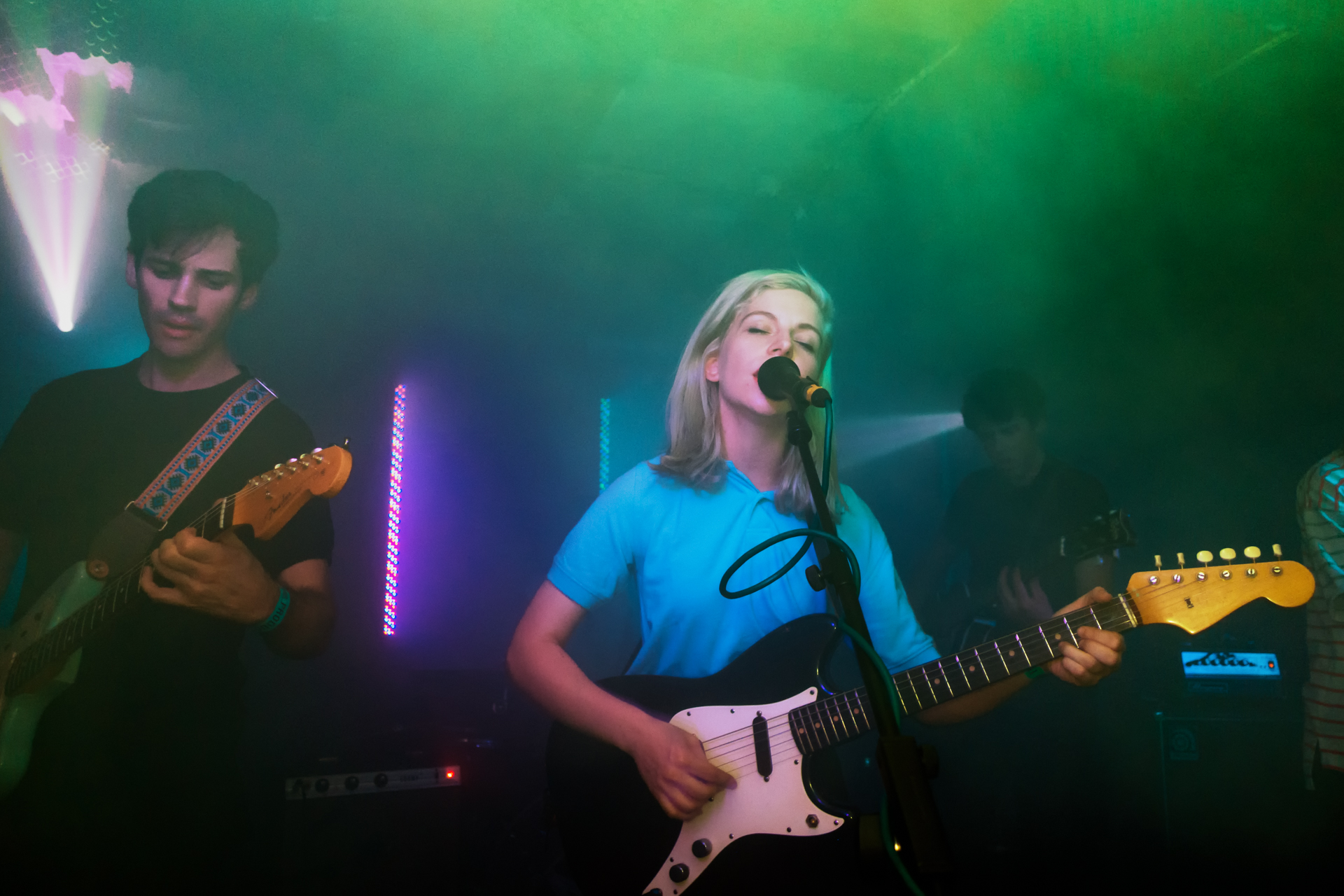 Alvvays at Birthdays